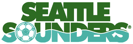 Logo for US soccer franchise Seattle Sounders, that played in the NASL from 1974 to 1983.